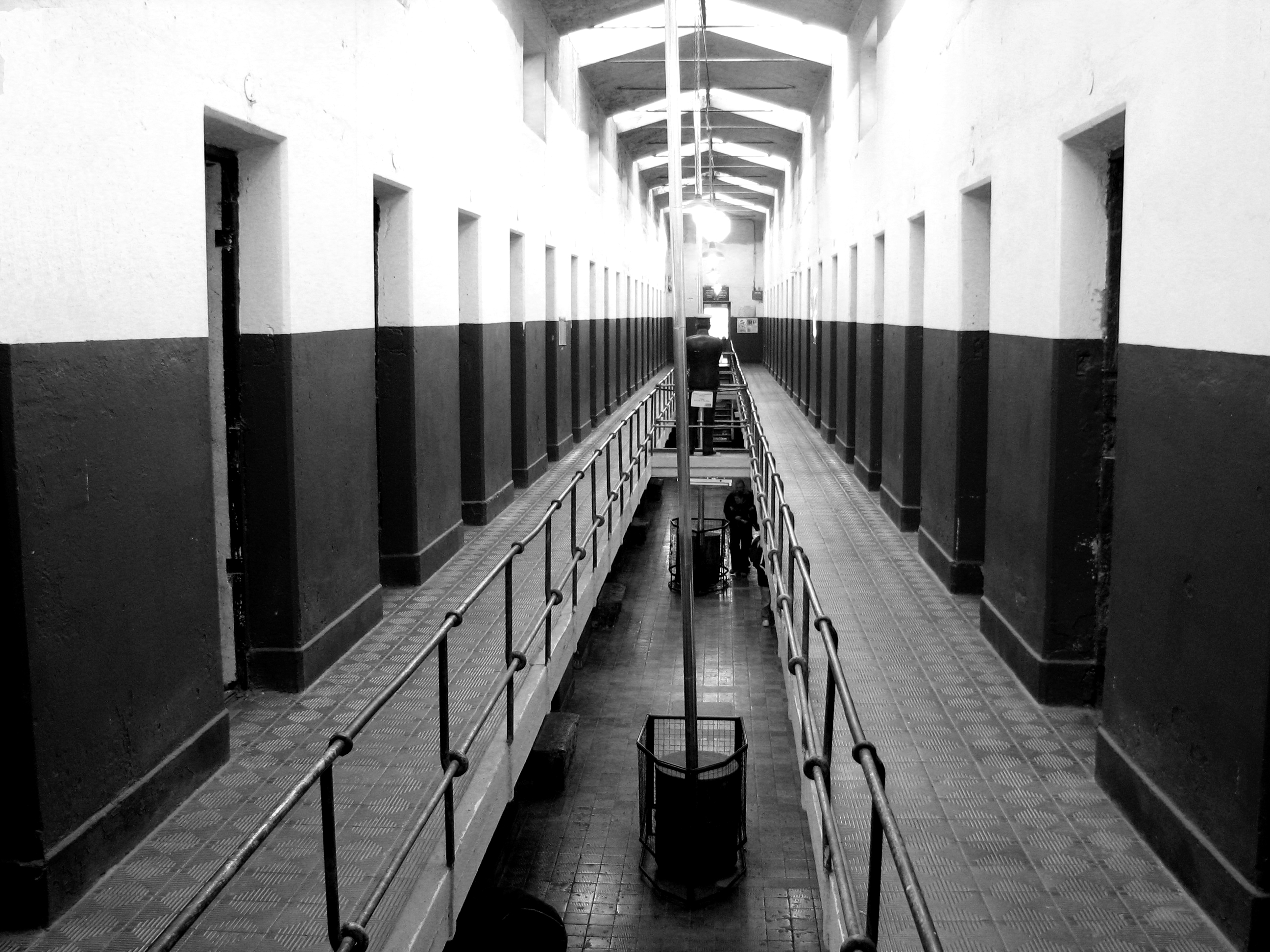 A corridor of the end of the world prison at Ushuaia, now a museum